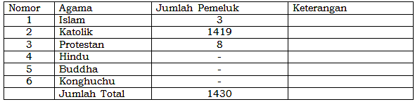 Penduduk Lewoloba Berdasarkan Agama